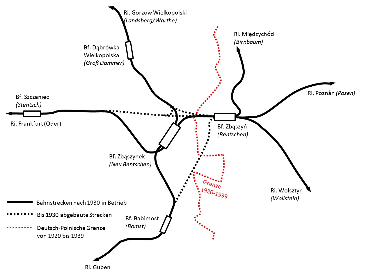 Railway lines around Zbąszynek